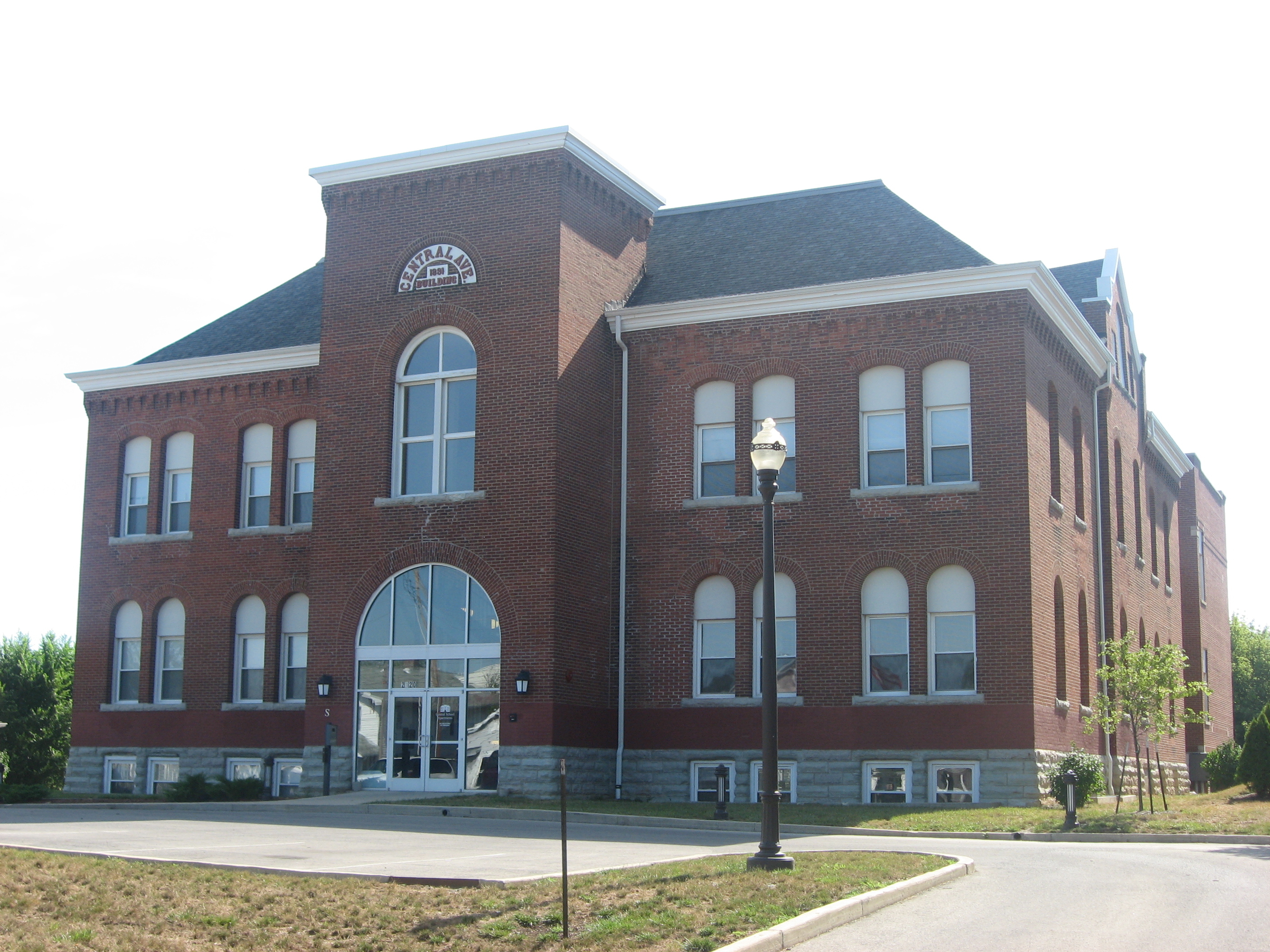 Front and southern side of the Central Avenue School, located at 2120 Central Avenue in Anderson, Indiana, United States. Built in 1891 and since converted into apartments, it is listed on the National Register of Historic Places.